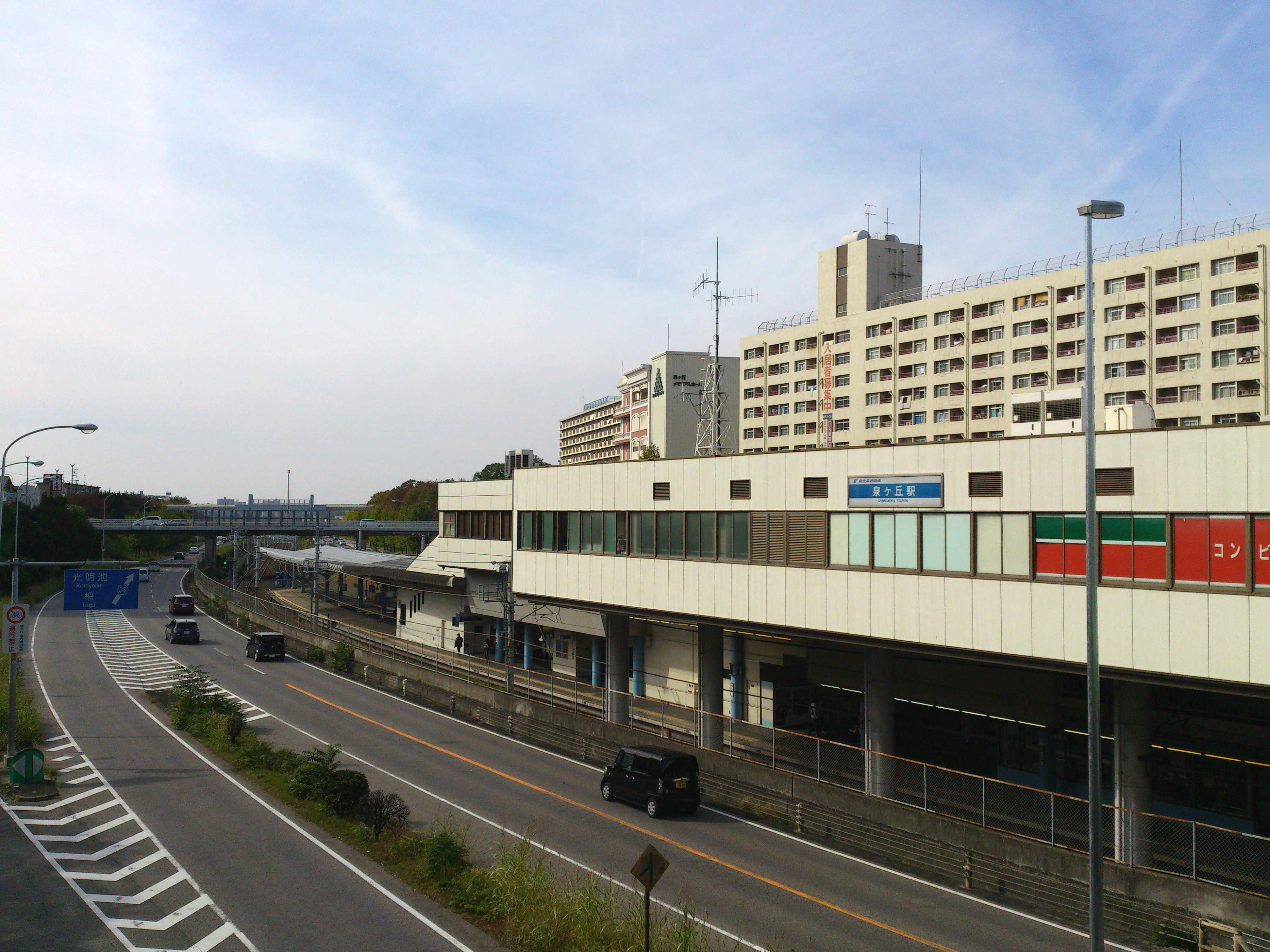 Izumigaoka Station of Semboku Rapid Railway